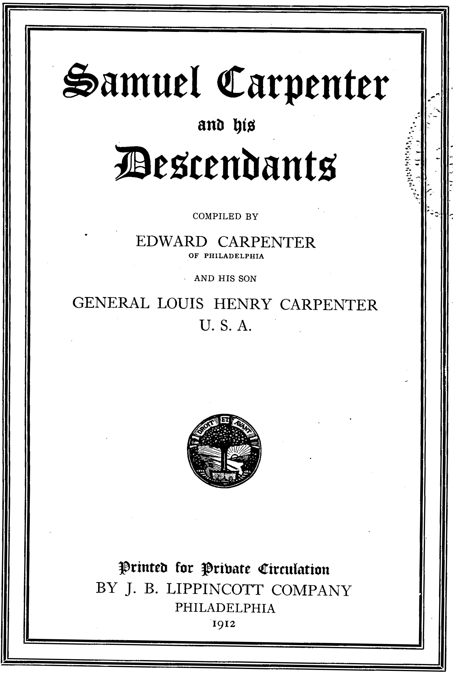 Title page of Samuel Carpenter and his Descendants Source